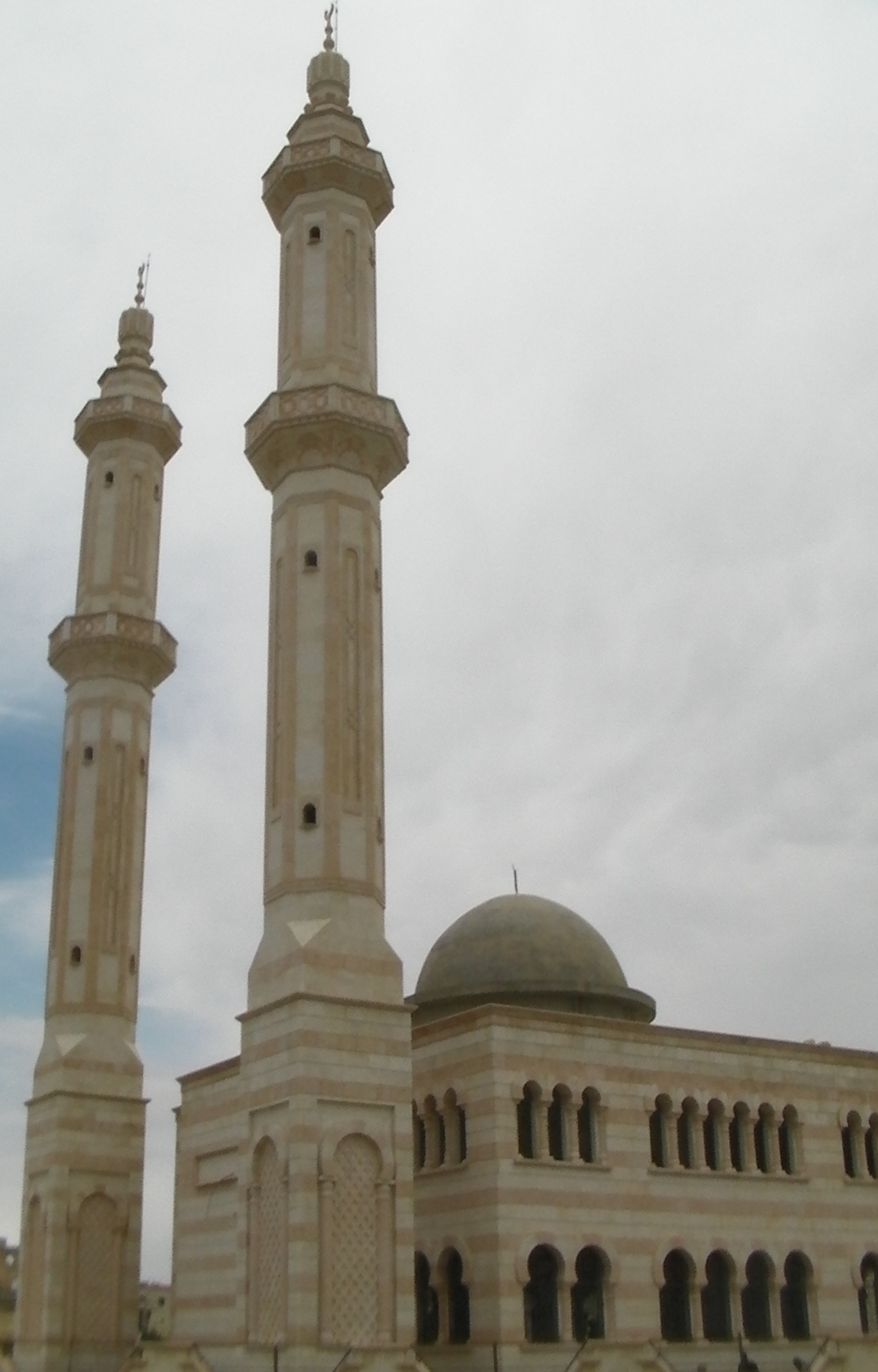 Mosque on the northeast outskirts of A'zaz (أعزاز), Syria, on the road to Kilis, Turkey. Elevation here is 555 meters.